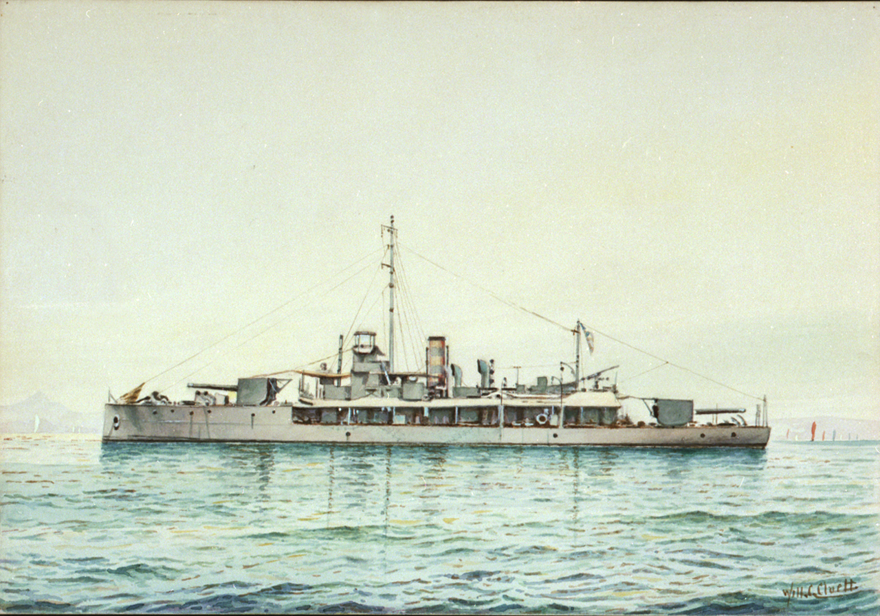 'M.31' in the Mediterranean Signed 'W.H.C.Cluett', lower right, this is an accurate port-broadside depiction of this Royal Naval 'M'-class river monitor at anchor. This small type was put together fairly rapidly, using standard hulls but with differing weaponry basd on what was available. 'M.31' had two 6-inch BL mark XII guns and one 6-pdr Hotchkiss HA gun. She was based at Imbros island (renamed Gökçeada in 1970) on the north-west Turkish coast to January 1916 then in Egypt to March 1919. The background sugests she is here shown off the Turkish coast. One of these ships - the 'Minerva' (M.33) - has survived and is today preserved as a historic vessel at Portsmouth.